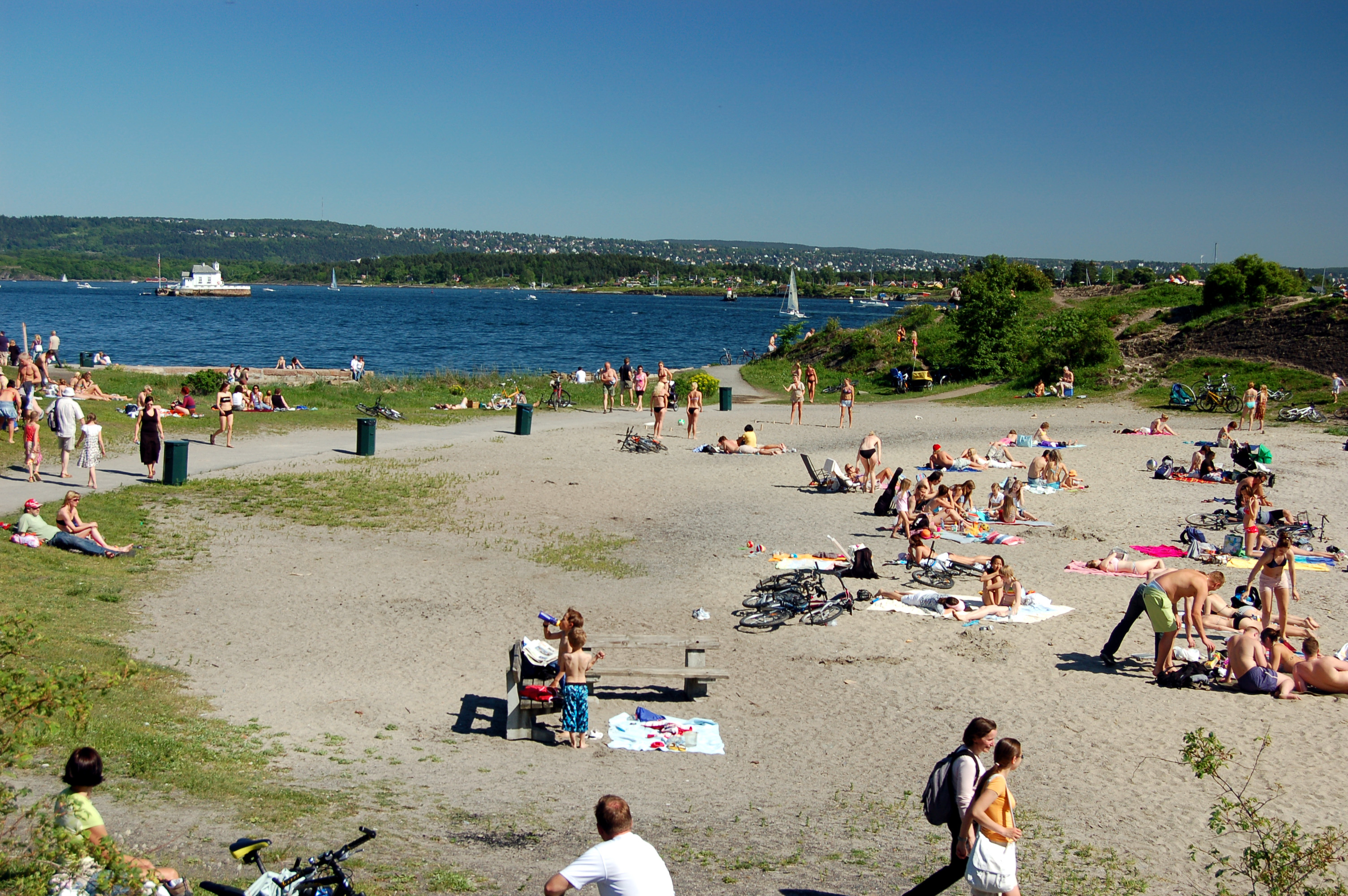 Huk beach @ Bygdøy peninsula, Oslo, Norway